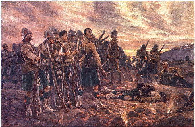 "All that was left of them" The Black Watch after the Battle of Magersfontein